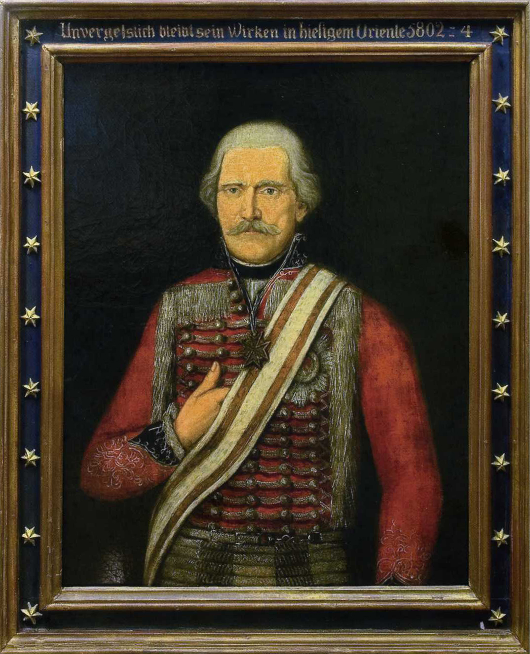 Major General Gebhard Leberecht von Blücher, by unknown artist (1800). Inscription on the upper frame: "His deeds here in the Oriente will remain unforgotten, 5802-4". Gift of Blücher to the Freemasons' lodge "Pax inimica malis" in Emmerich in October 1800. Owned by the lodge Pax inimica malis, Emmerich